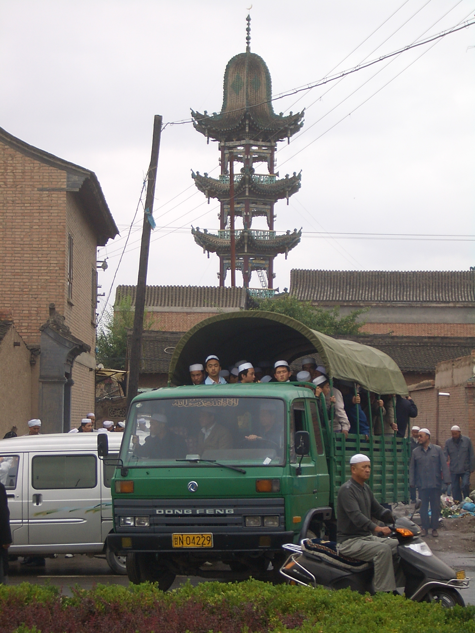 Worshippers leaving a small mosque in the southwest of Linxia City, just a block or two from the Daxia River esplanade and Xin Xi Lu